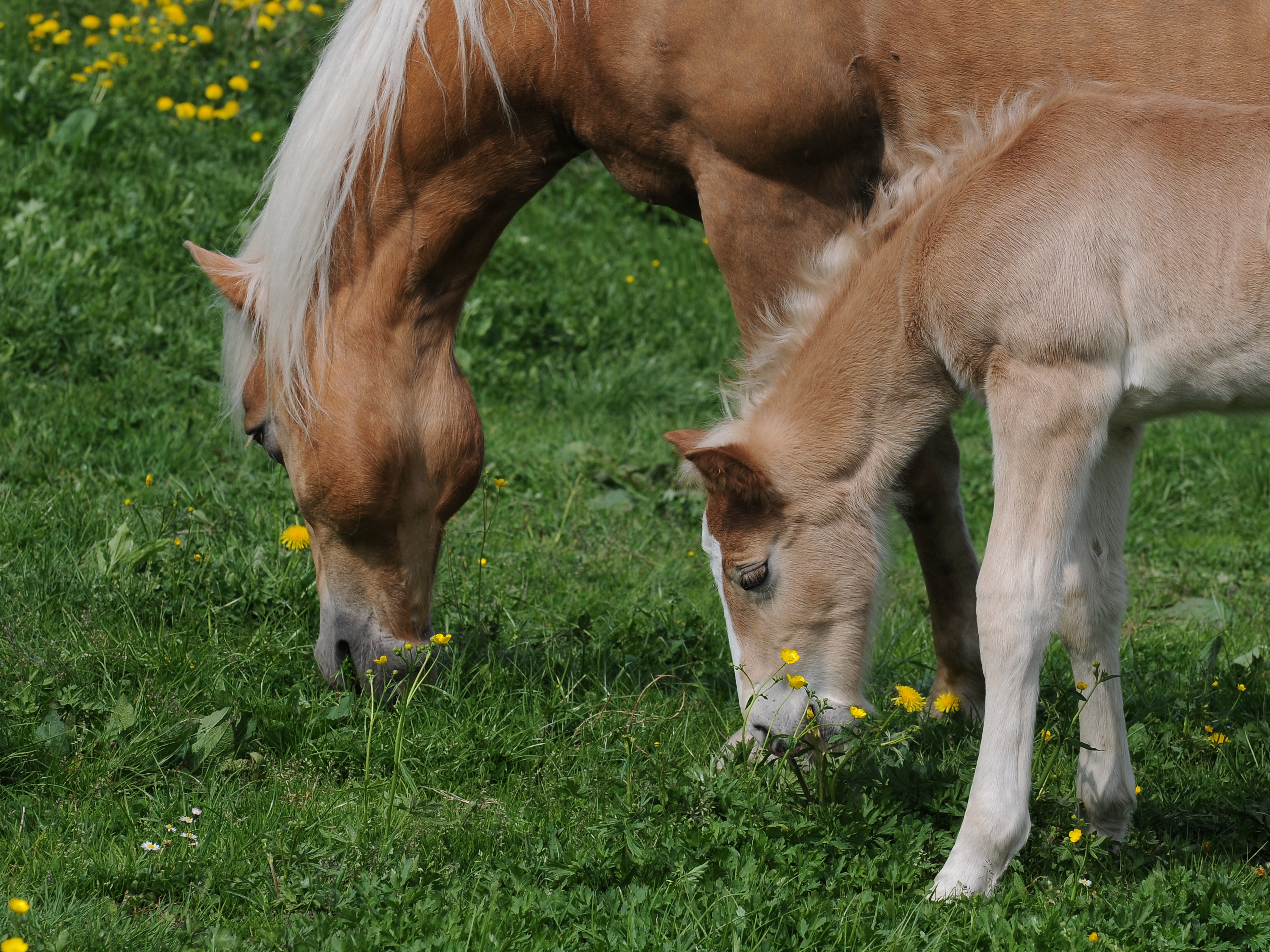 The Haflinger is a breed of horse developed in Austria and northern Italy during the late 1800s.